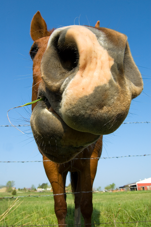 A horse's snout.